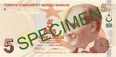 Front of 5 Turkish Lira